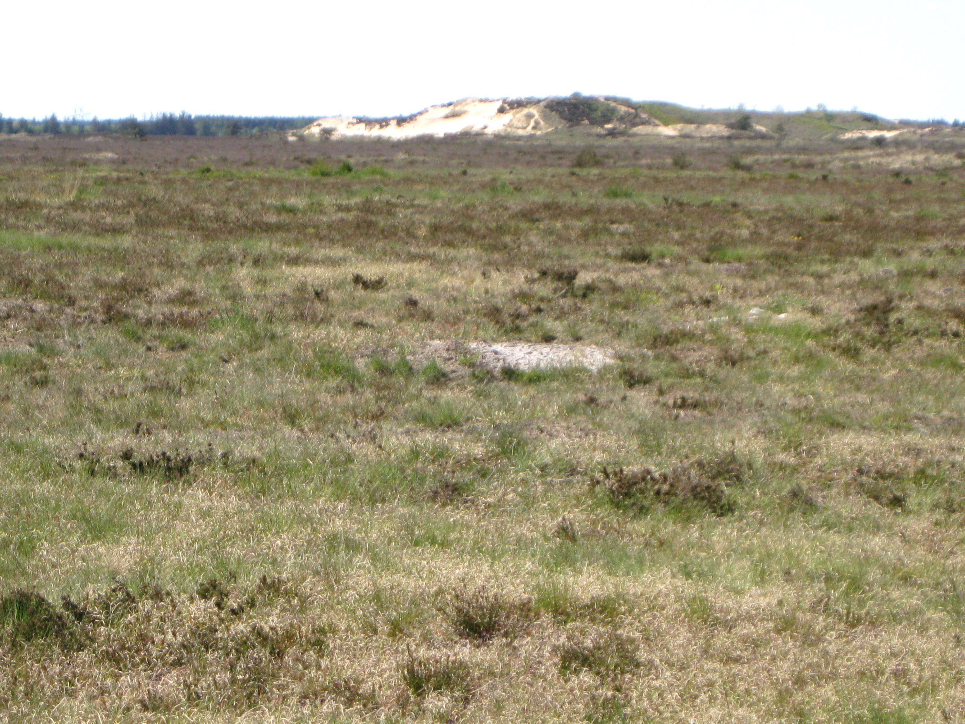 The heath "Randbøl Hede" in Vejle Kommune, South-Central Jutland, Denmark.